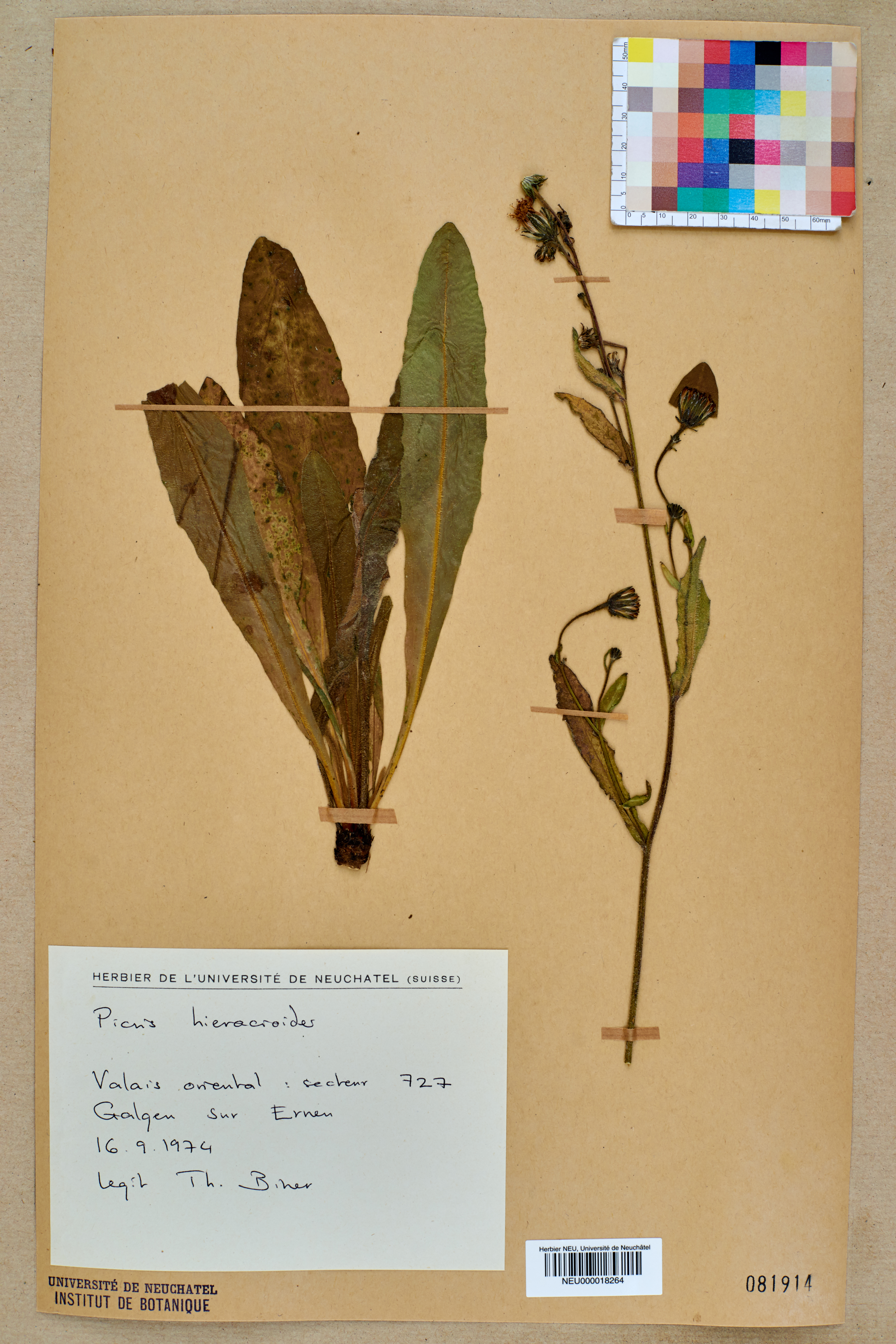 Dried pressed specimen of Picris hieracioides